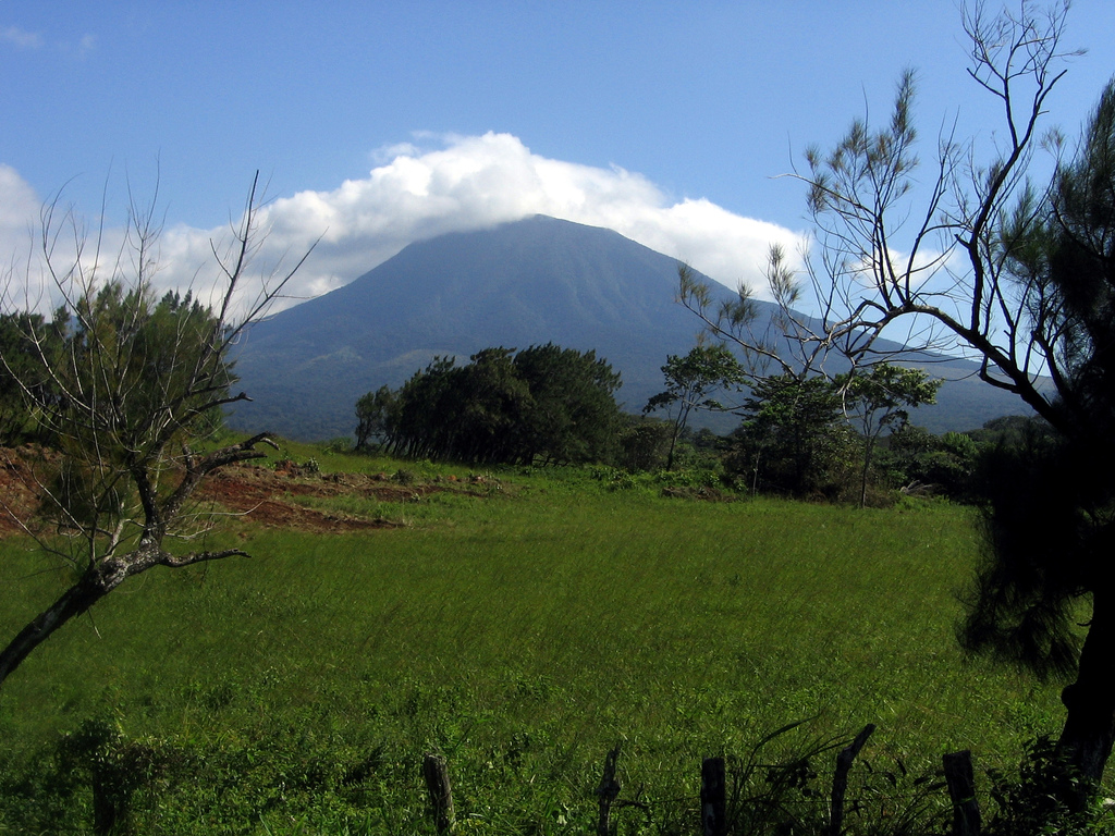 Rincón de la Vieja Volcano, in the National Park of the same name in Costa Rica, part of the UNESCO Area de Conservación Guanacaste World Heritage Site